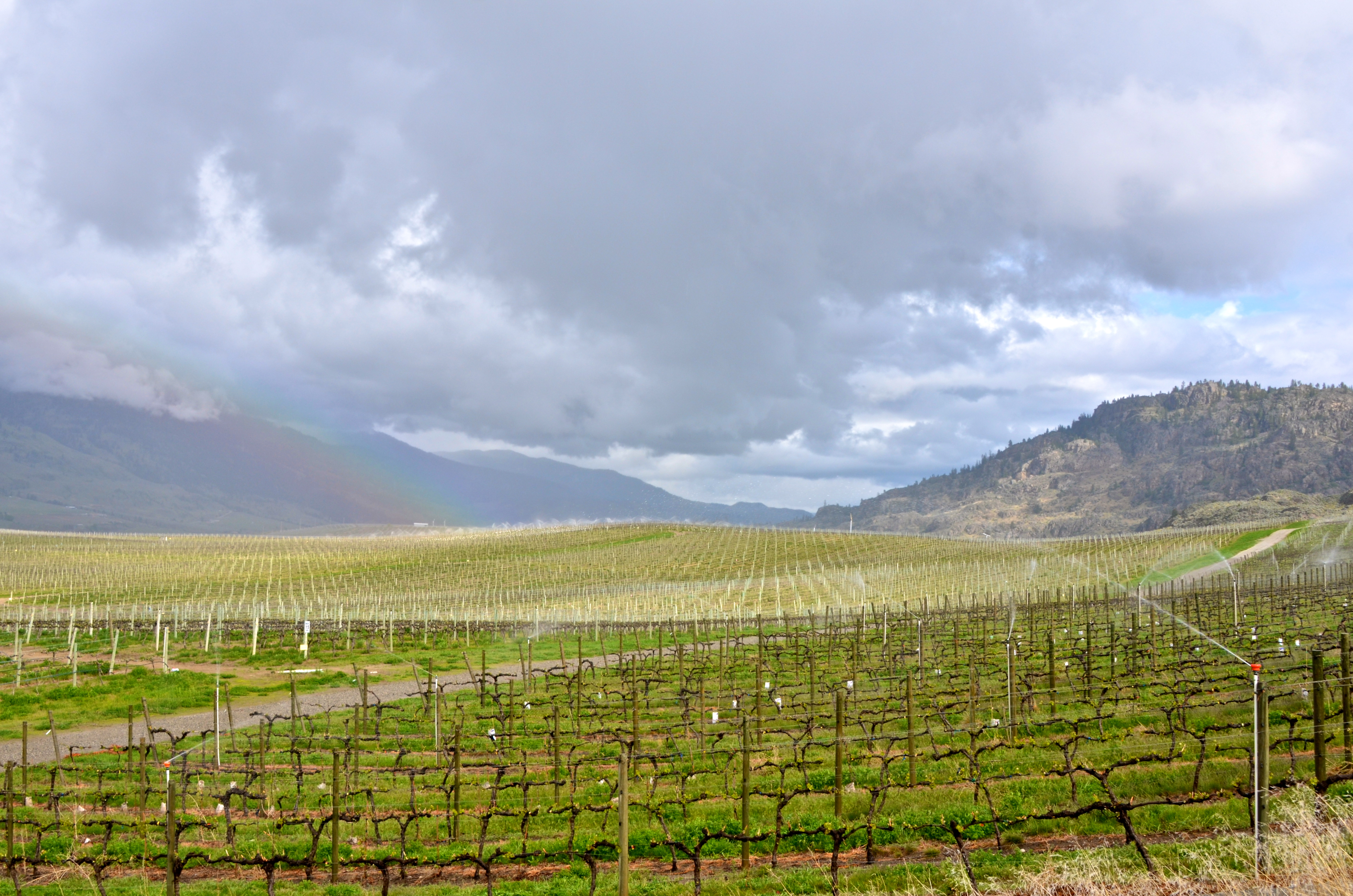 Black Sage Vineyards